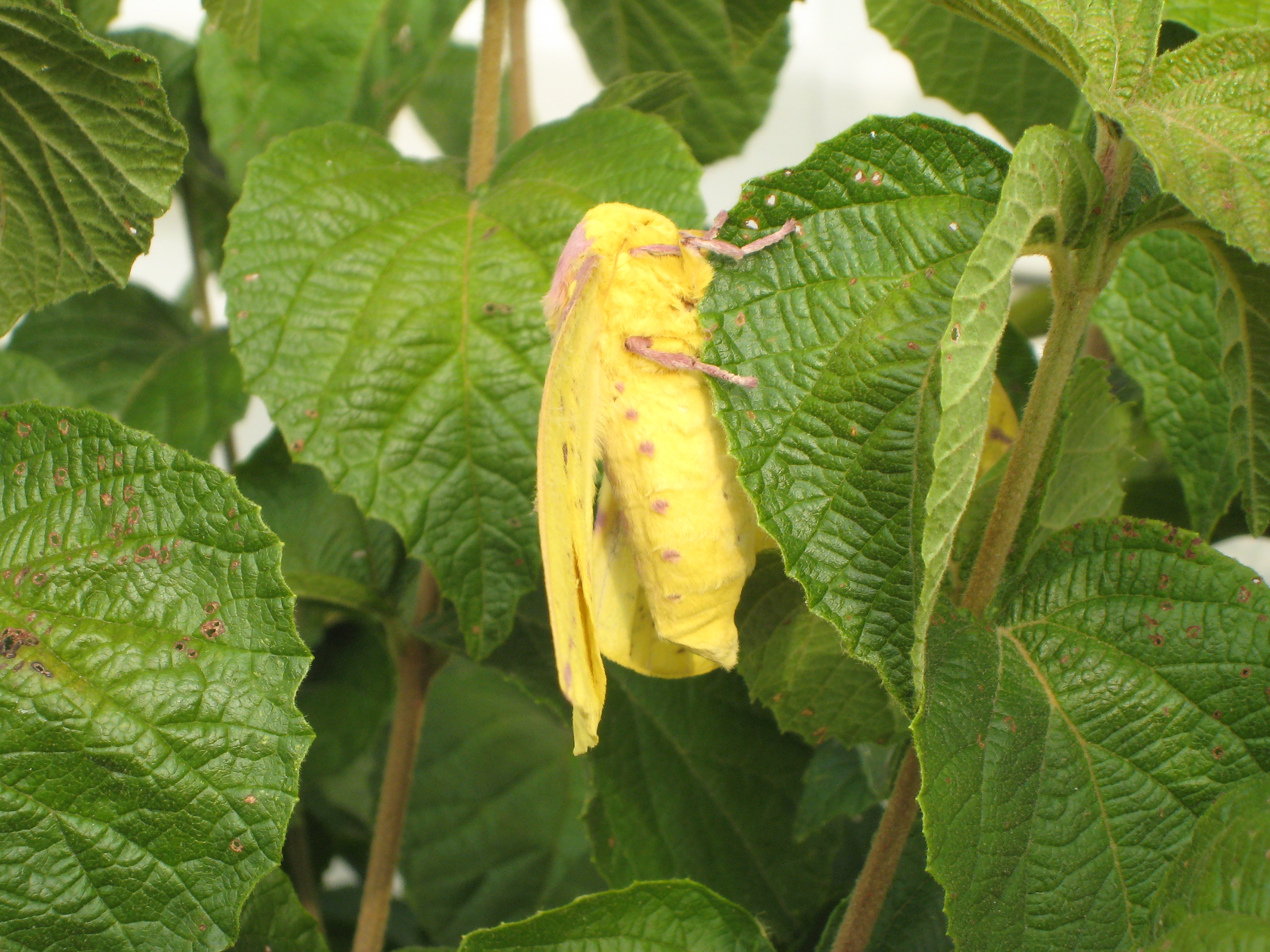 Imperial moth found in Trappe, Pennsylvania on July 27, 2007